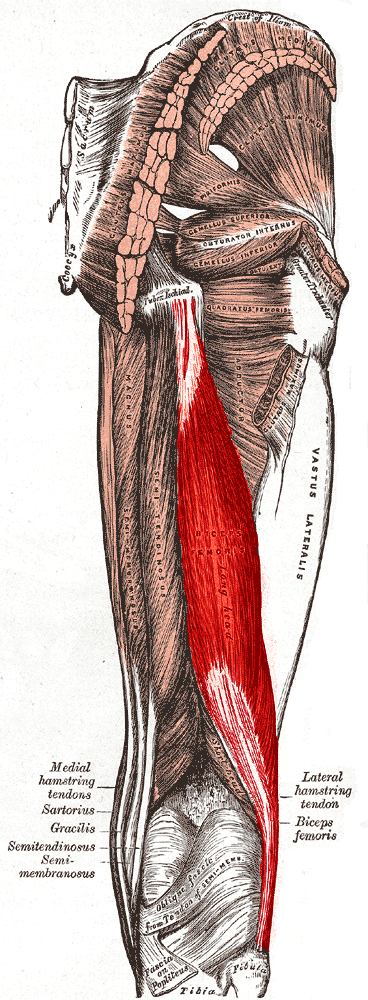 Muscles of the gluteal and posterior femoral regions with current muscle highlighted